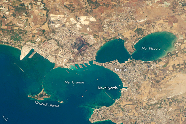 Looking down from the International Space Station on the Italian coastline through a powerful (1150 millimeter) zoom lens, an astronaut shot this detailed photograph of the city of Taranto. It is Italy’s major southern port and naval base. These facilities face into the outer bay, locally known as the Mar Grande, where ships are anchored. The Cheradi Islands form a small archipelago that encircles the Mar Grande. From docks on the north side of Mar Grande, the city exports petroleum and steel products from a nearby industrial zone. The naval yards lie on the east side. The old town, dating from Roman times, occupies the tip of the promontory that separates Taranto’s outer bay from the inner bay, Mar Piccolo.